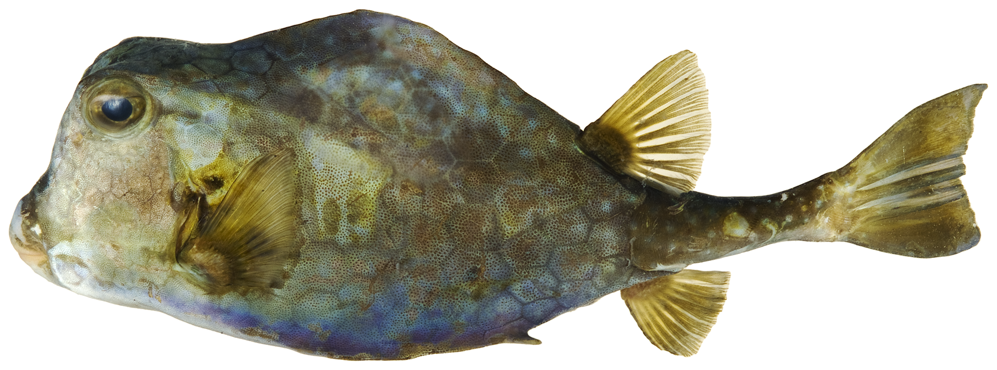 Lactophrys trigonus (Linnaeus, 1758)—trunkfish, 293.1 mm SL. Photo by JT Williams.